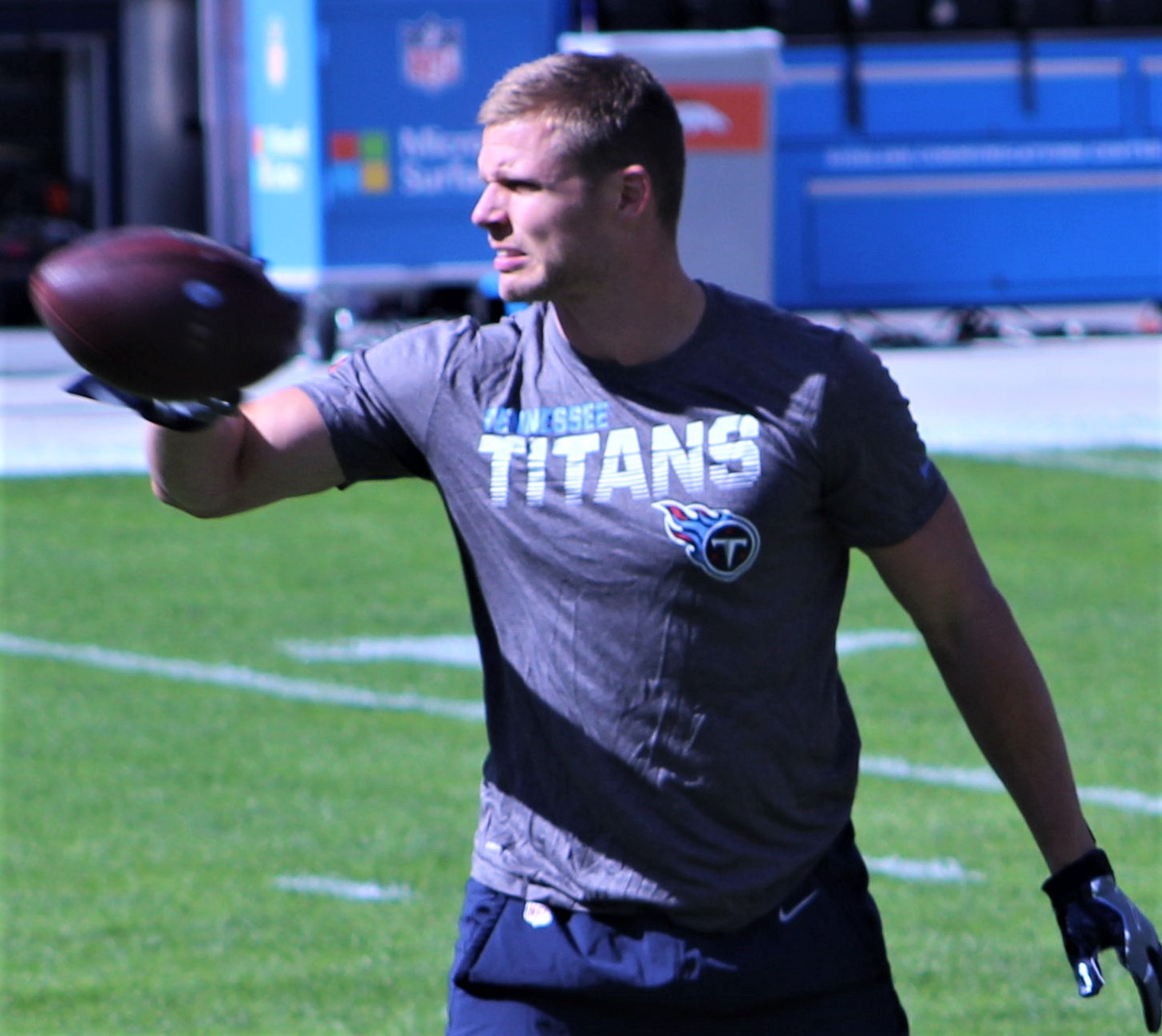 Adam Humphries warming up before a game with the Tennessee Titans in 2019